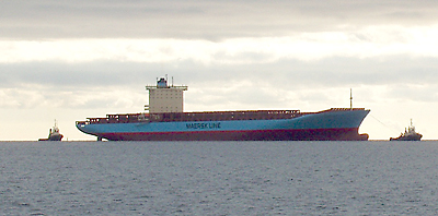 The Gunvor Maersk (IMO: 9302891) container ship of the Gudrun-Maersk class at the Århus Bay in 2005, shortly after construction was completed. At the time, it was one of the worlds largest container ships. Today, Maersk has larger ships than this. IMO Number: 9302891 MMSI Number: 220413000 Callsign: OYGC2 Length: 367 m Beam: 42 m